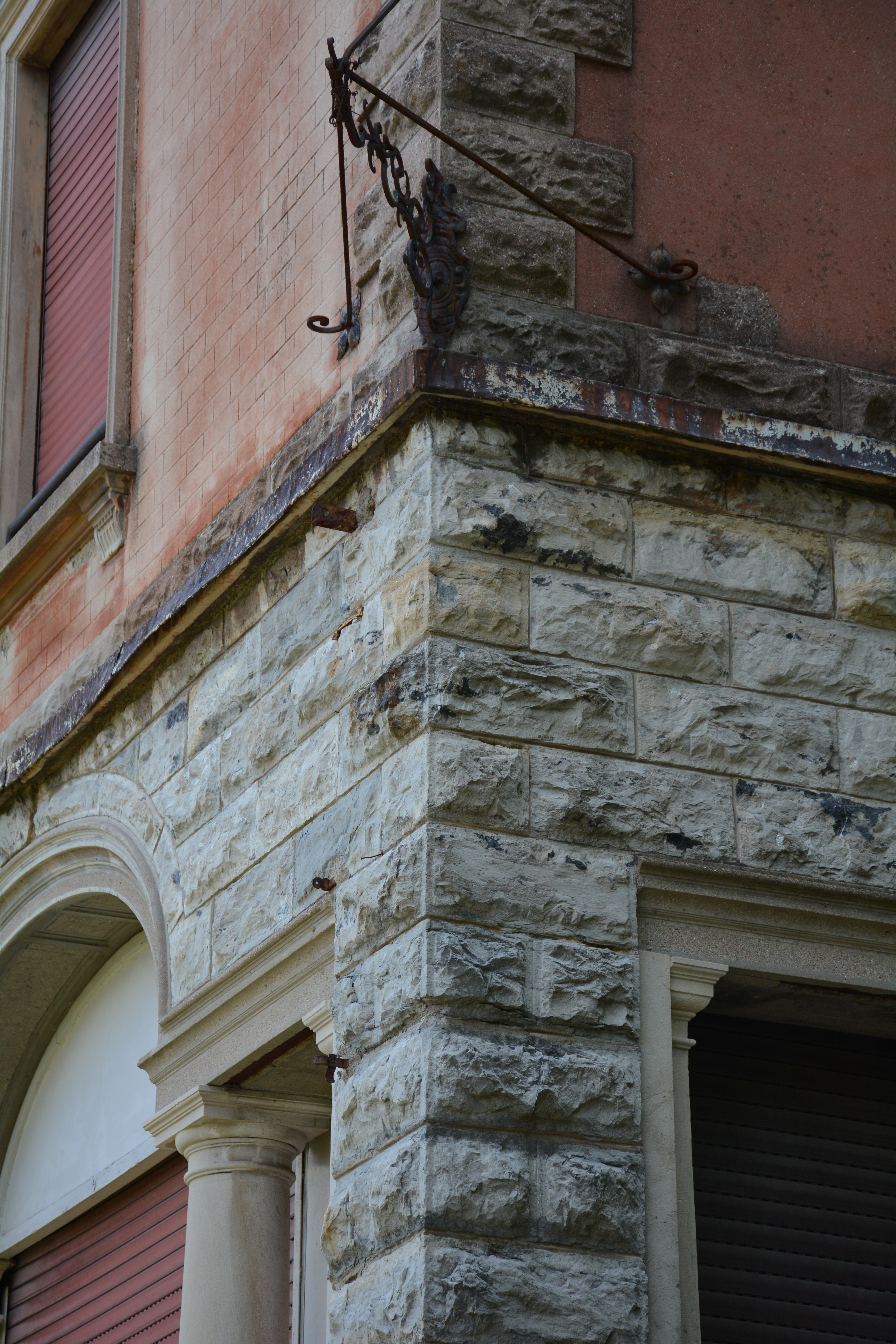 Rusticated Villa Toeplitz